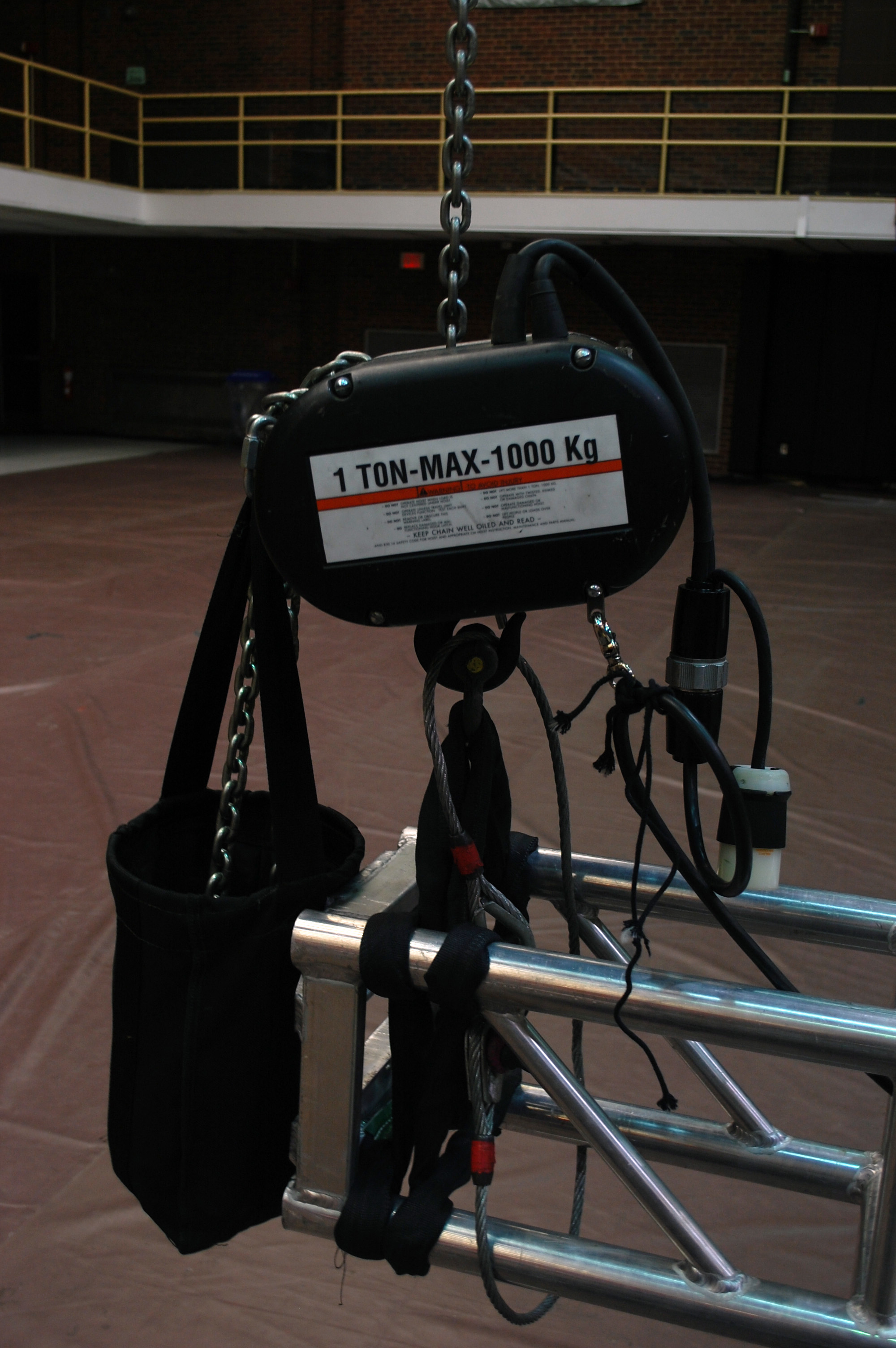 CM Lodestar Chainmotor in use